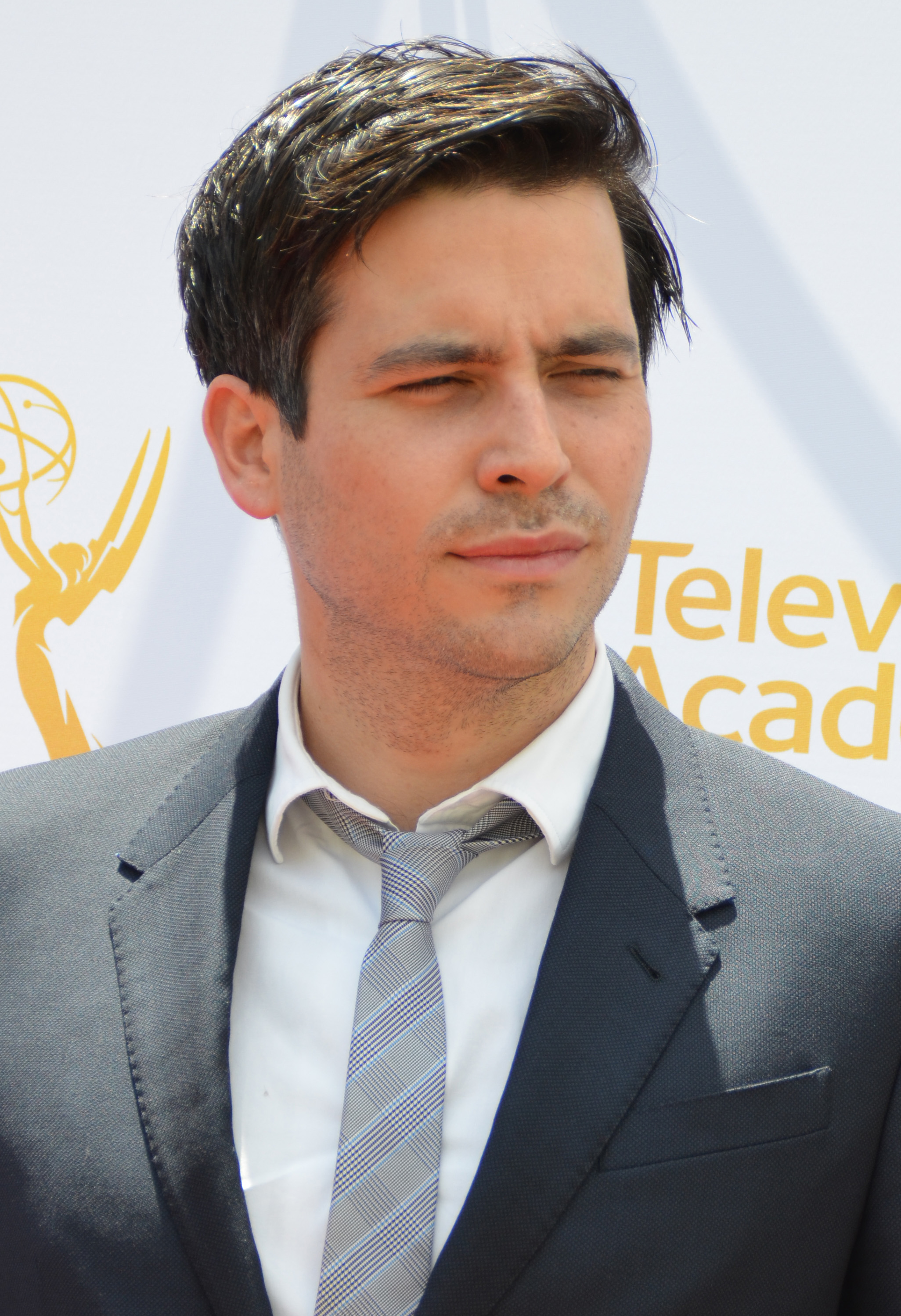 The Television Academy Hosts An Afternoon of Tea, Scones and Chatting with Downton Abbey Cast and Creators at Paramount Studios Saturday afternoon with the creative team and cast members of Downton Abbey at Paramount Studios for a behind-the-scenes look at this Primetime Emmy-winning PBS drama created by Julian Fellowes and co-produced by Carnival Films and Masterpiece.